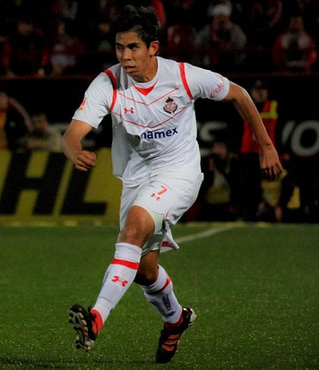 Toluca player Nestor Calderon